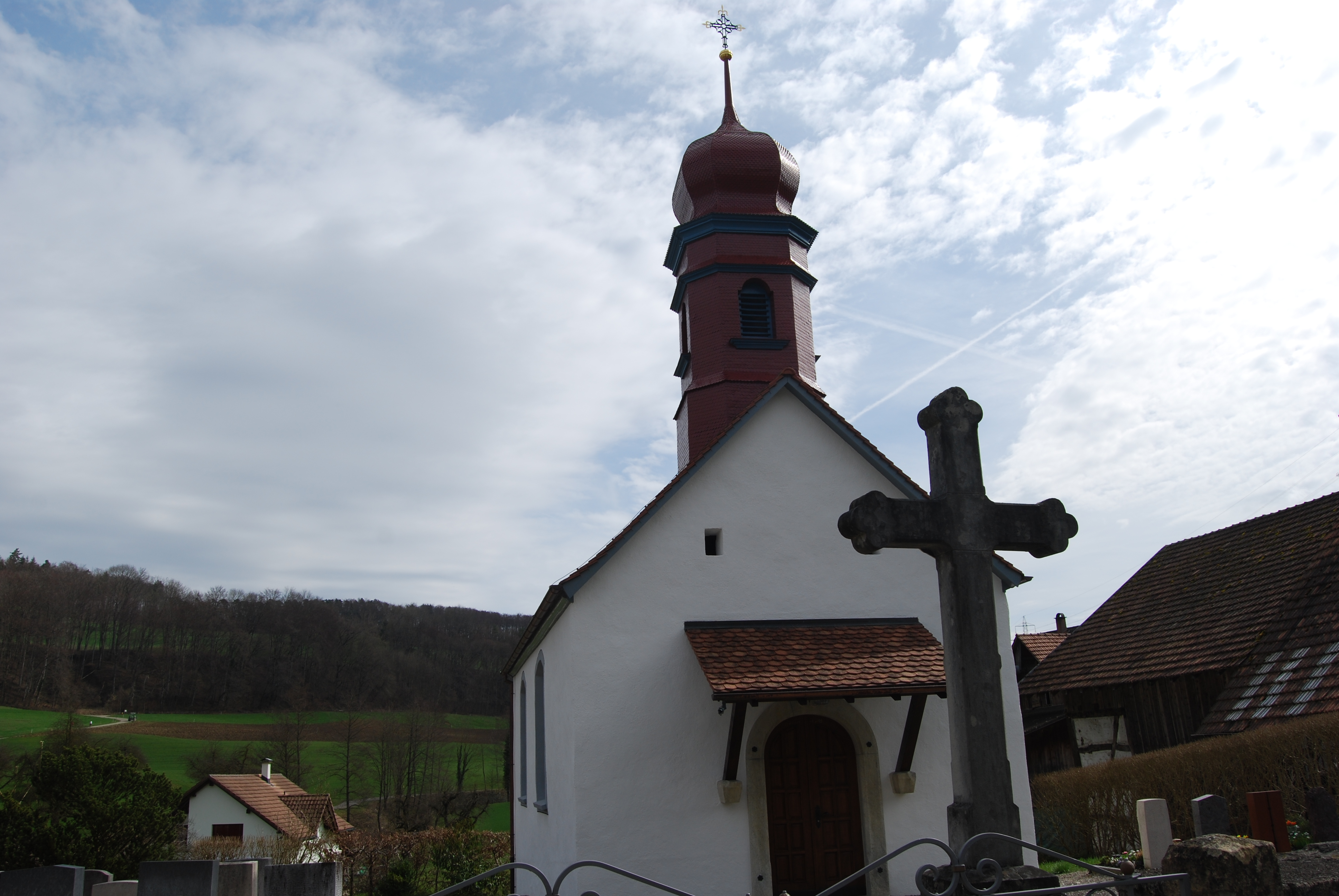 Church of Böbikon, canton of Aargau, SwitzerlandEsperanto: Preĝejo de Böbikon, Kantono Argovio, Svislando